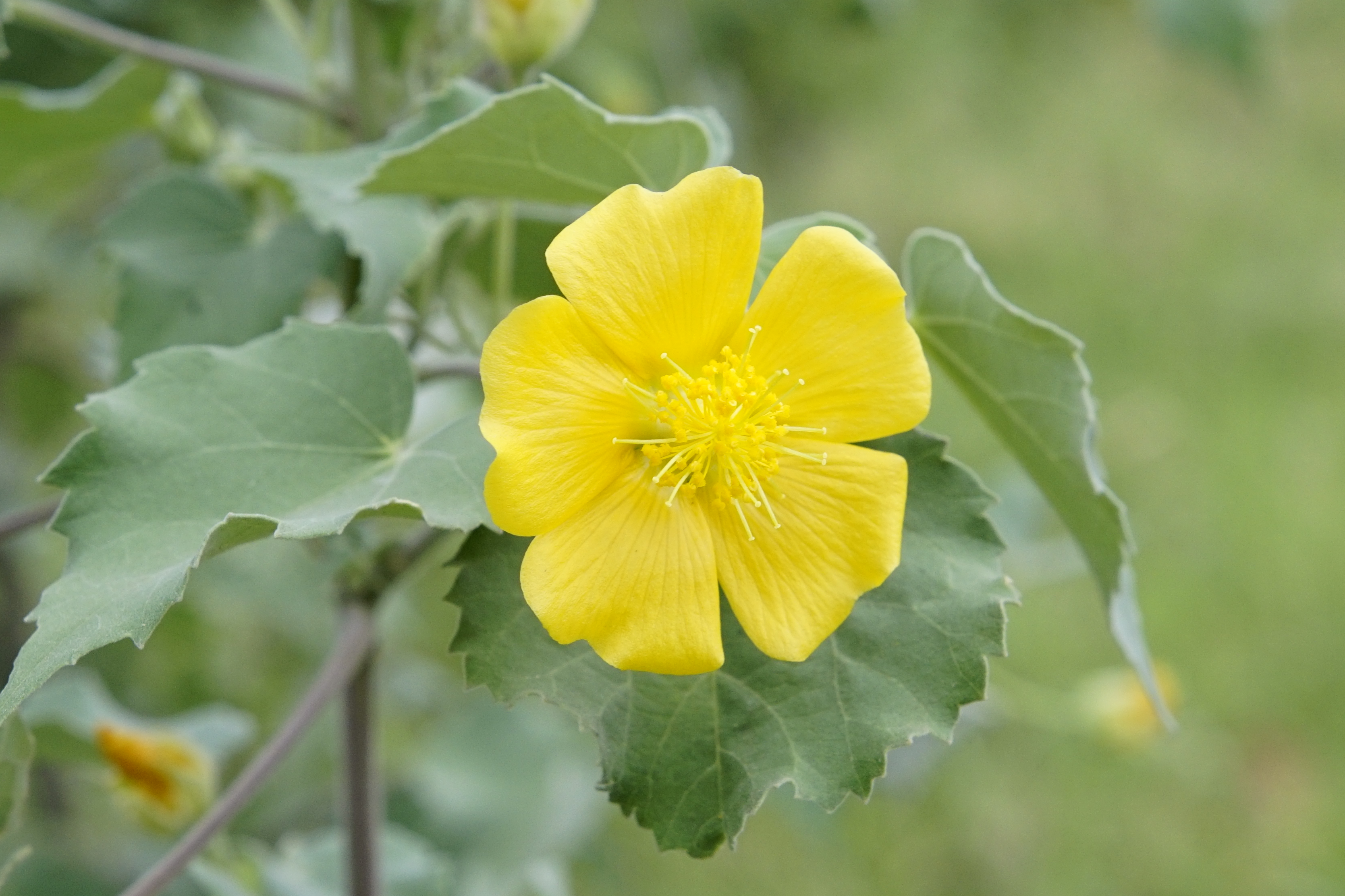 Abutilon indicum